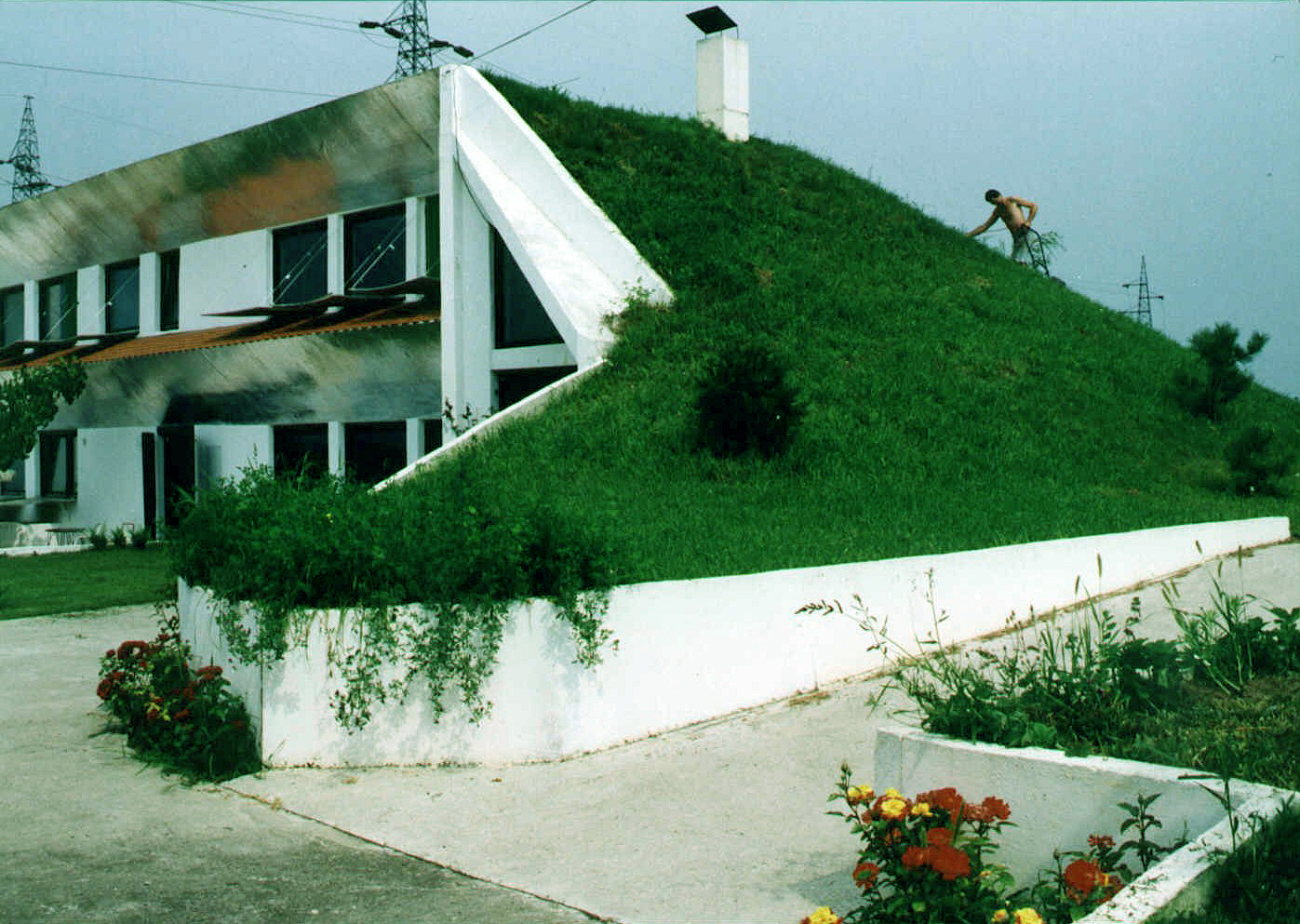 Veljko Milkovic's Self-Heating Ecological House concept. The house owned by Aleksandar Nikolic. Location: Novi Sad, Serbia